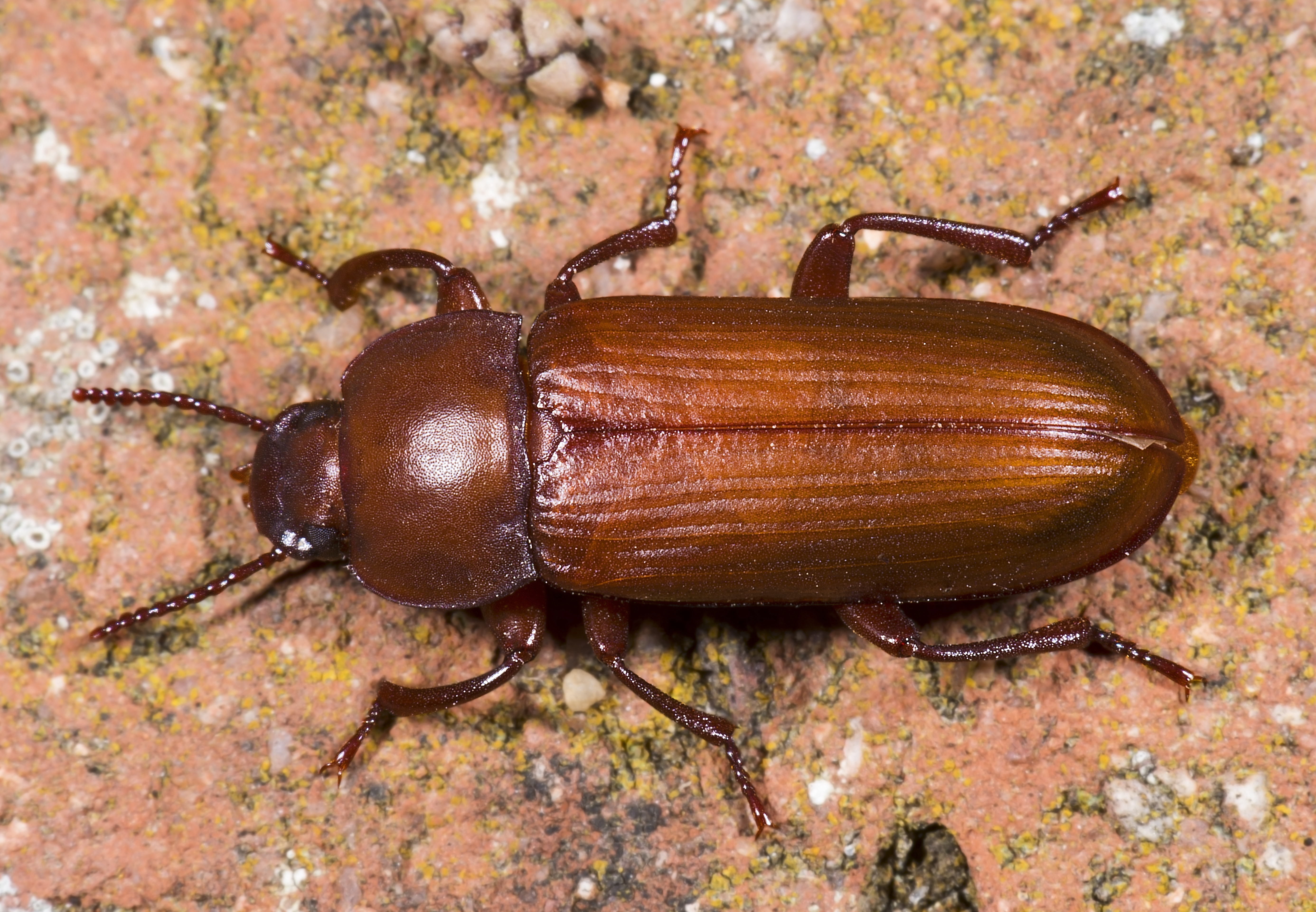 Darkling Beetle. Brown juvenile form. Locality: Fronton, Haute-Garonne, Midi-Pyrénées, France